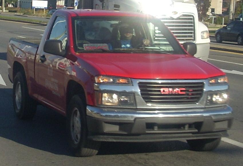 2004-2005 GMC Canyon photographed in Montreal, Quebec, Canada.